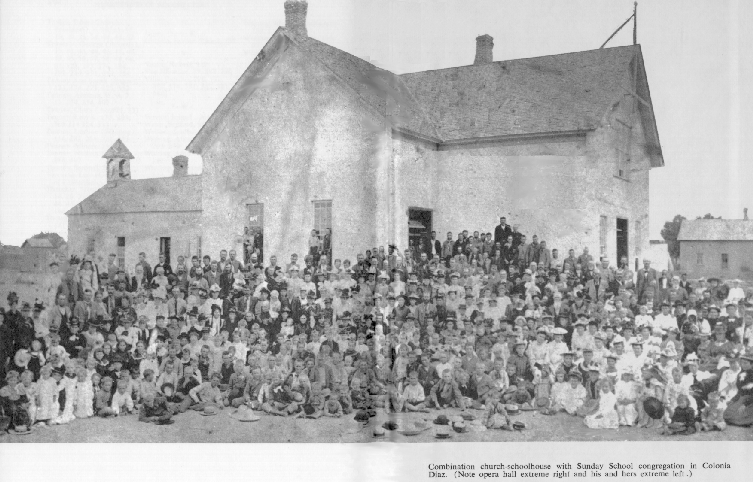 Caption: "Combination church-schoolhouse with Sunday School congregation in Colonia Diaz. Notice opera hall at extreme right." A former Meetinghouse of the The Church of Jesus Christ of Latter-day Saints (LDS Church) in Colonia Diaz, Chihuahua, Mexico. It was the first such meetinghouse in Mexico, and was destroyed in 1912 when the whole community was ransacked during the Mexican Revolution.